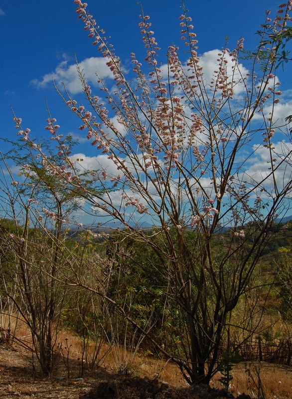 Flowering Gliricidia sepium treelet. SoE, West Timor, Indonesia